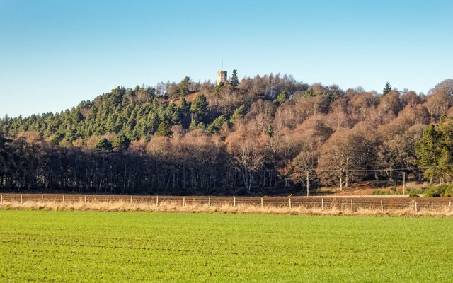 Fields at Woodside